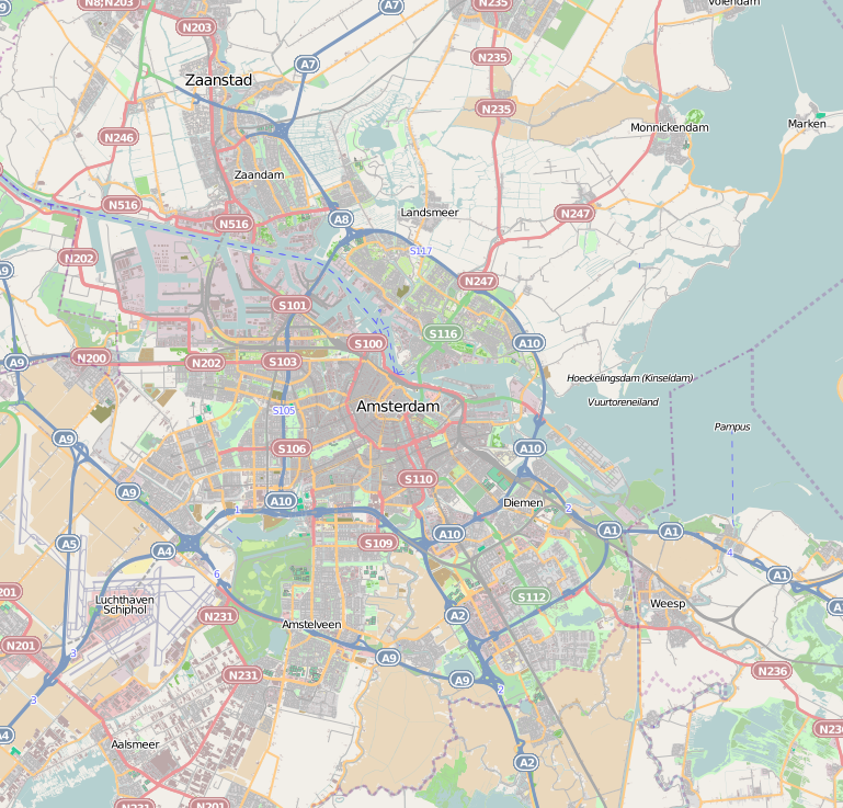 Map of Amsterdam Geographic limits of the map: N: 52.496° S:52.247° W: 4.699° E: 5.125°